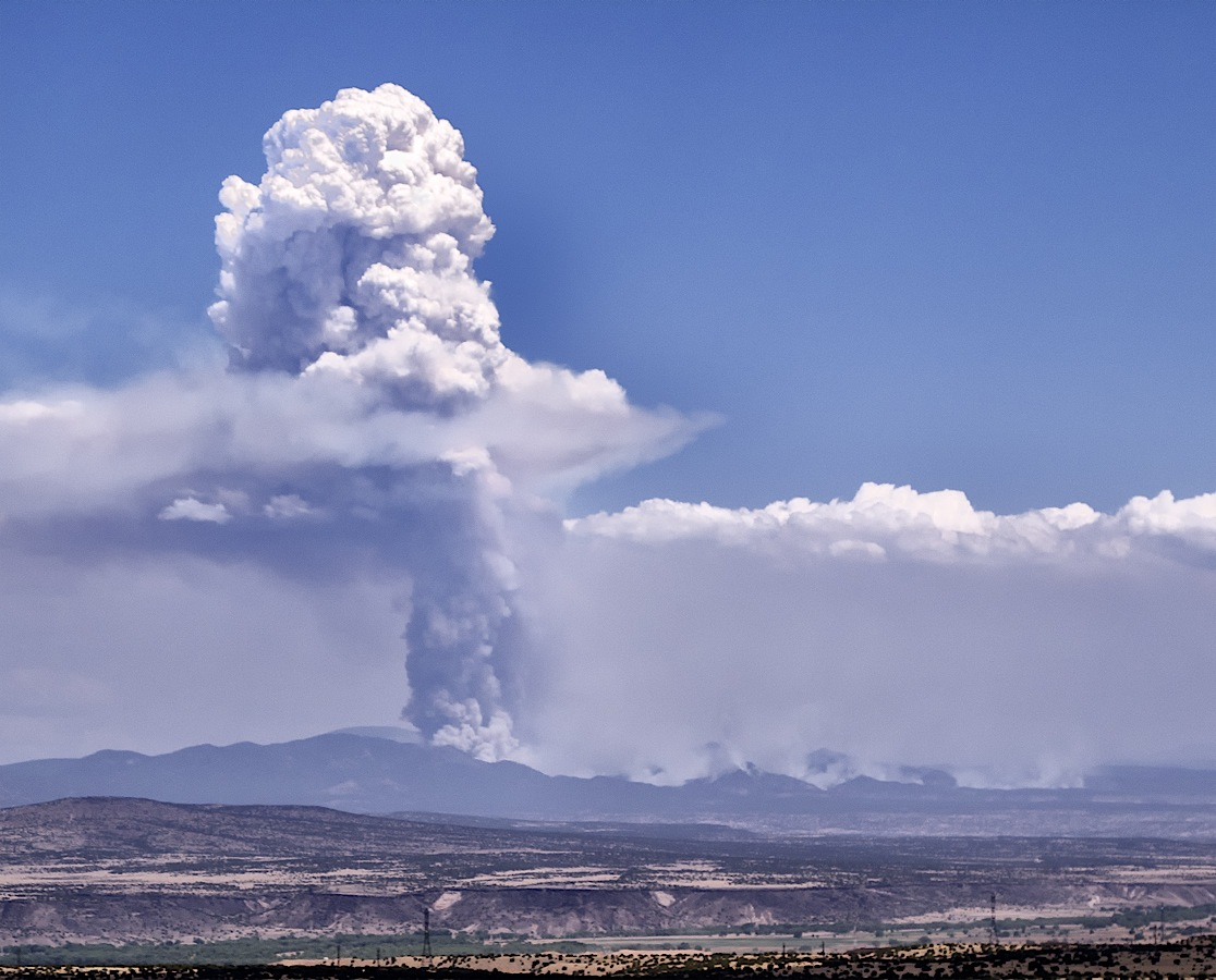 Las Conchas Fire, as seen from Placitas, NM. The Las Conchas fire continues to creep down the southern flanks of the Jemez mountains.